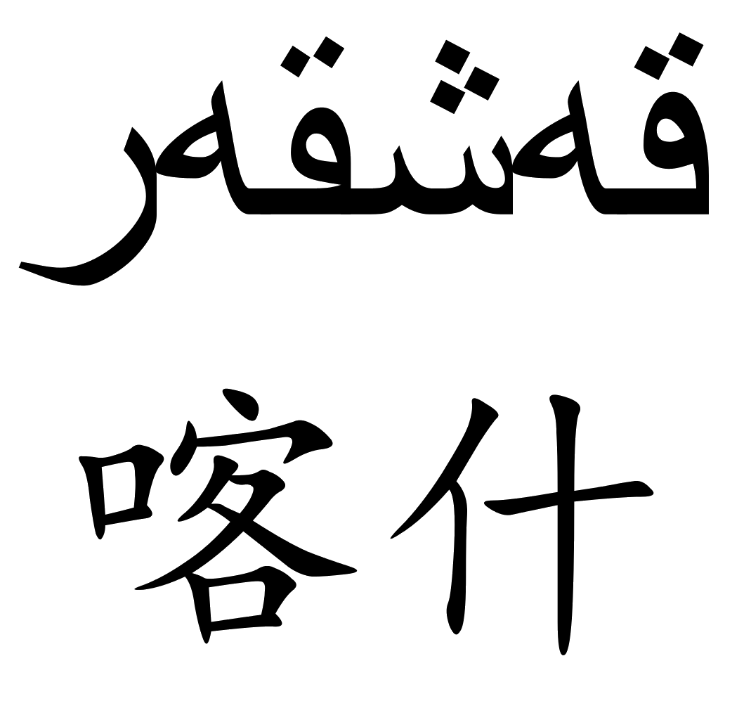 Using local ordering of Uyghur text above Chinese characters as seen in the region; based on File:Kashgar_(Chinese_and_Uighur).svg